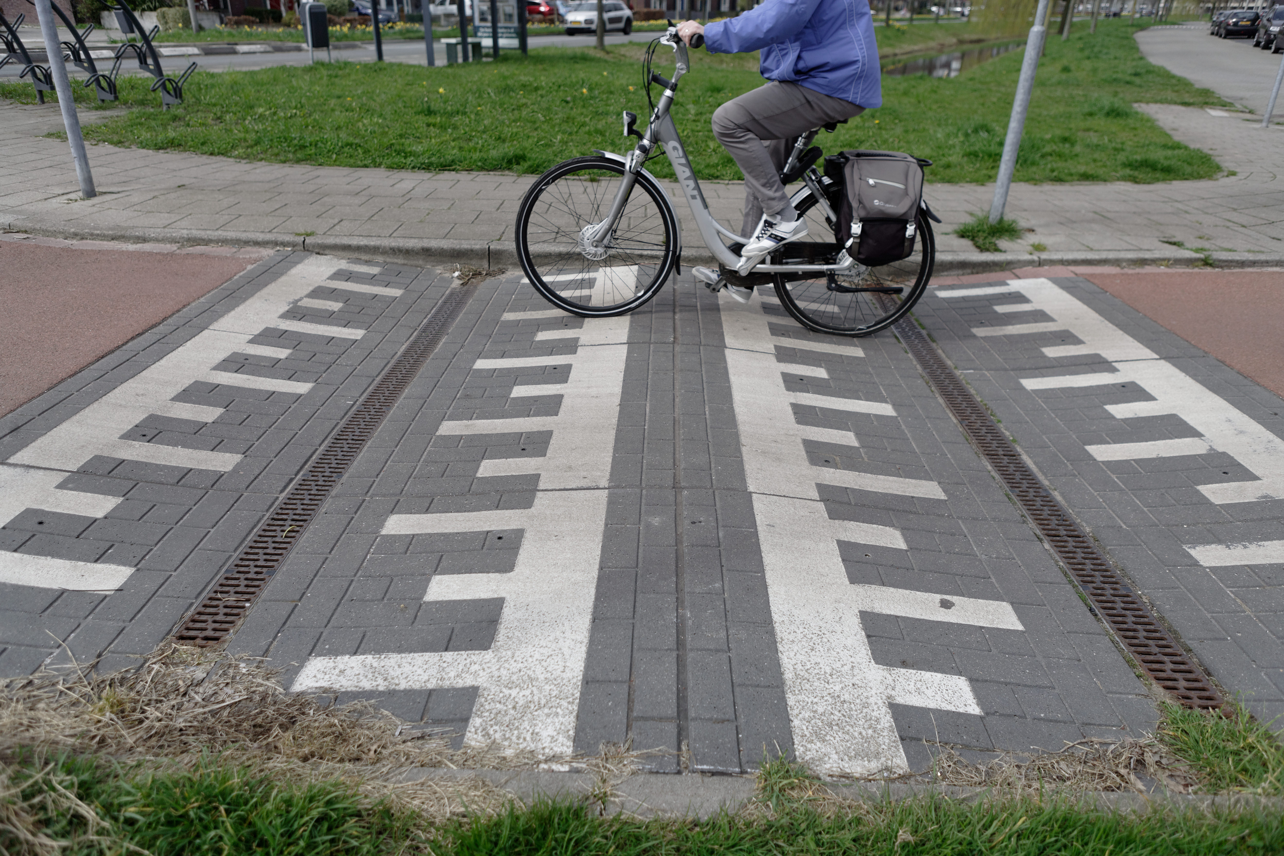 Double dip speed breaker with bicycle on a cycleway in Delfgauw The Netherlands.